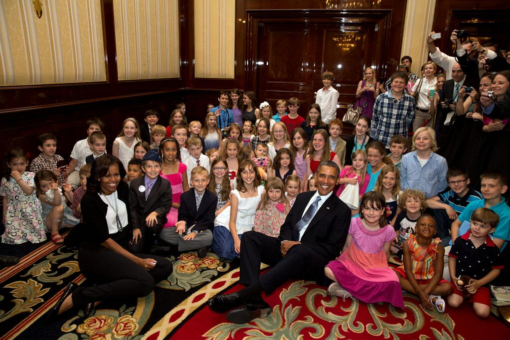 United States President Barack Obama and Michelle Obama with the children of U.S. embassy staff in Berlin on 19 June 2013.